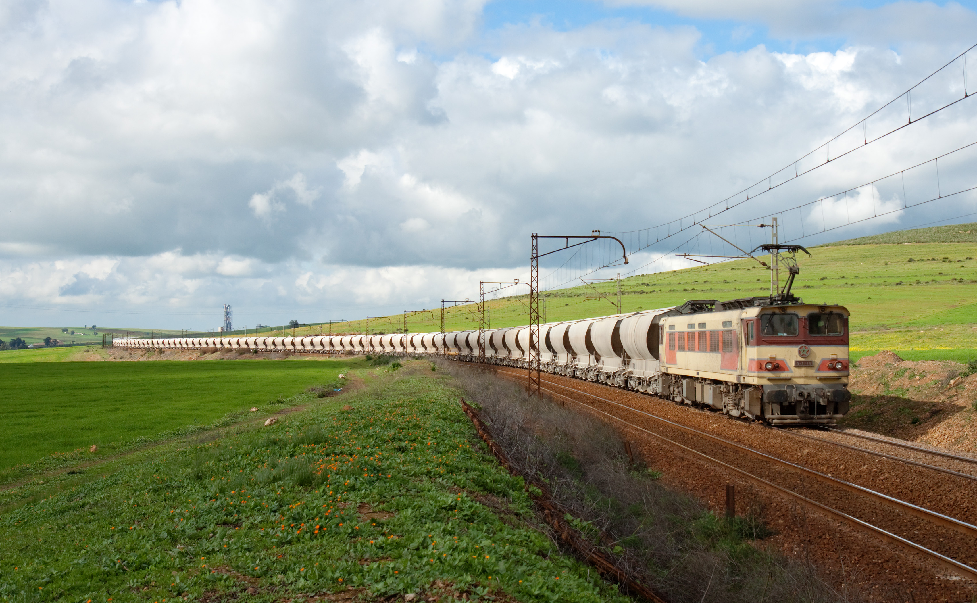 ONCF E 1100 built by Hitachi with an empty phosphate train near Tamdrost, Morocco.